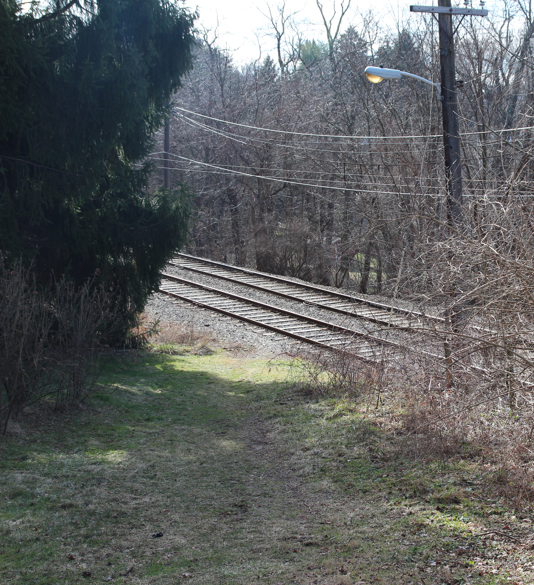 The site of the Mine 3 station, closed in 2012, as seen in 2017. Nothing remains.